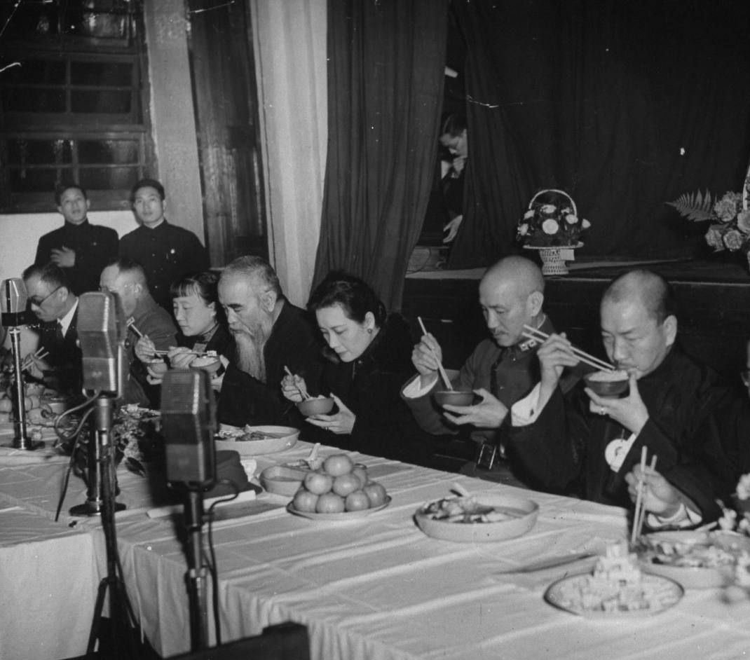 KMT government at Chungking in WWII